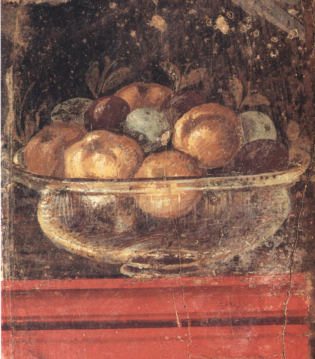 Transparent glass bowl of fruit. Detail from wall painting in Bedroom M of the Roman Villa of P. Fannius Synistor at Boscoreale, Italy. The Villa Boscoreale was probably built shortly after the middle of the first century BC. It burned in the eruption of Mount Vesuvius in AD 79 and was rediscovered in 1900.